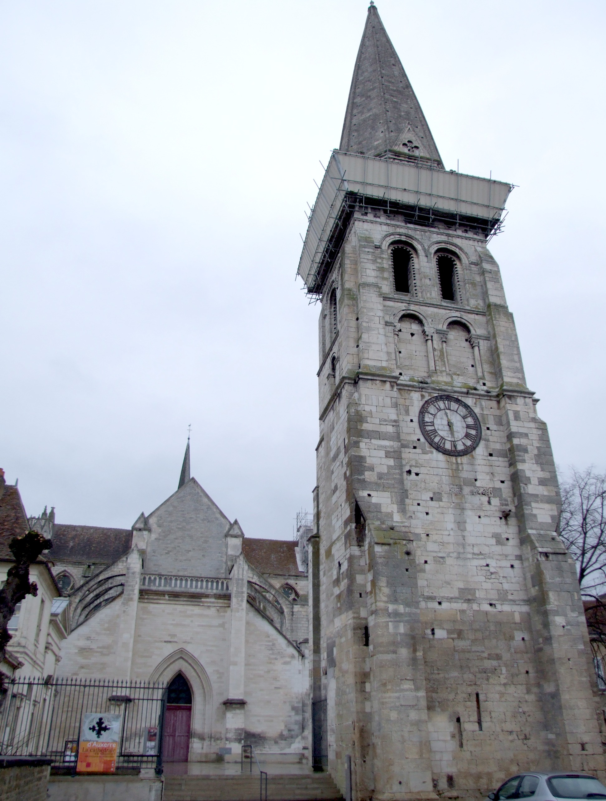 Saint-Germain abbey, Auxerre, Yonne, Burgundy, FRANCE